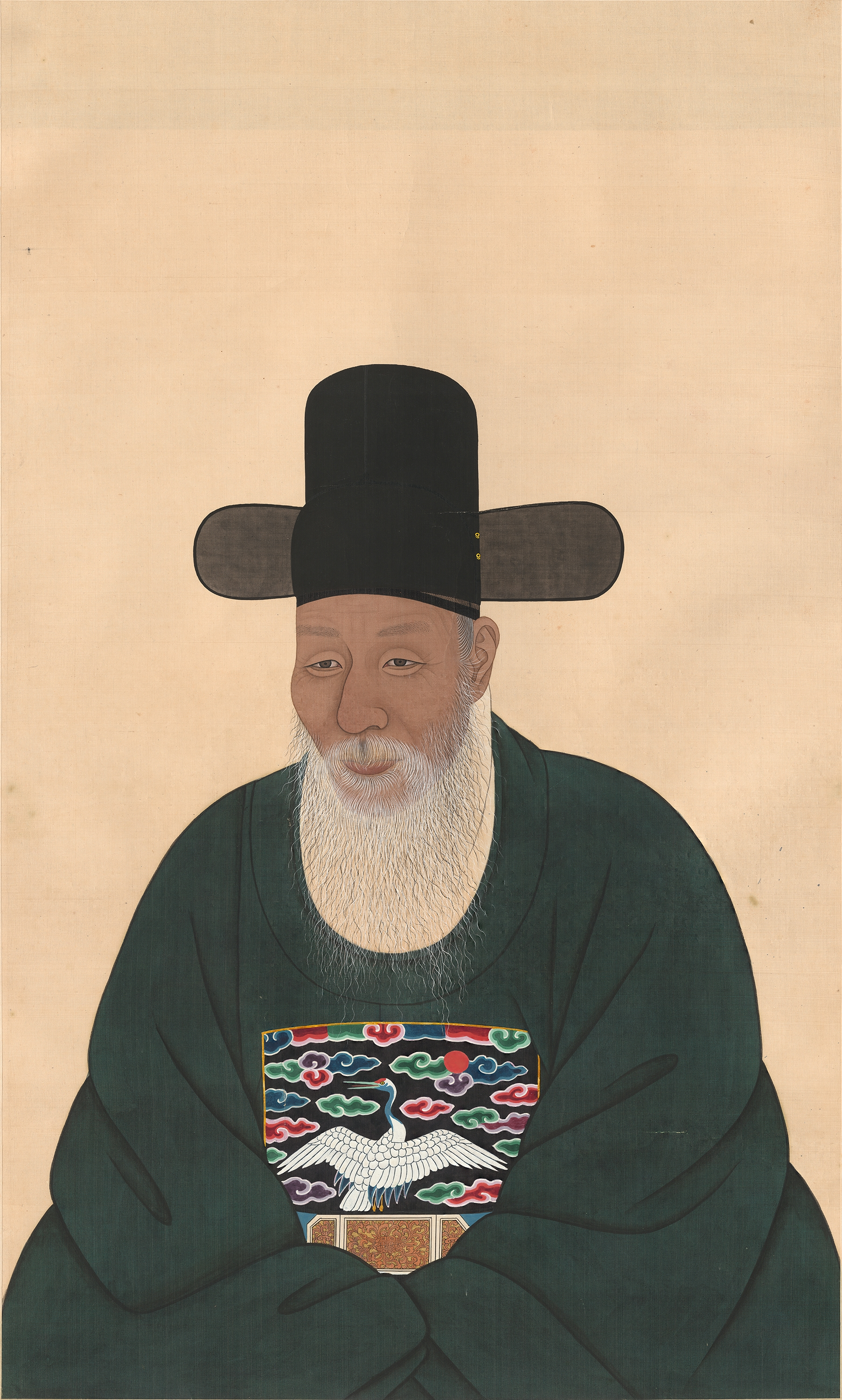 Korea-Portrait of Kim Jangsaeng, Neo-Confucian scholar of Korea